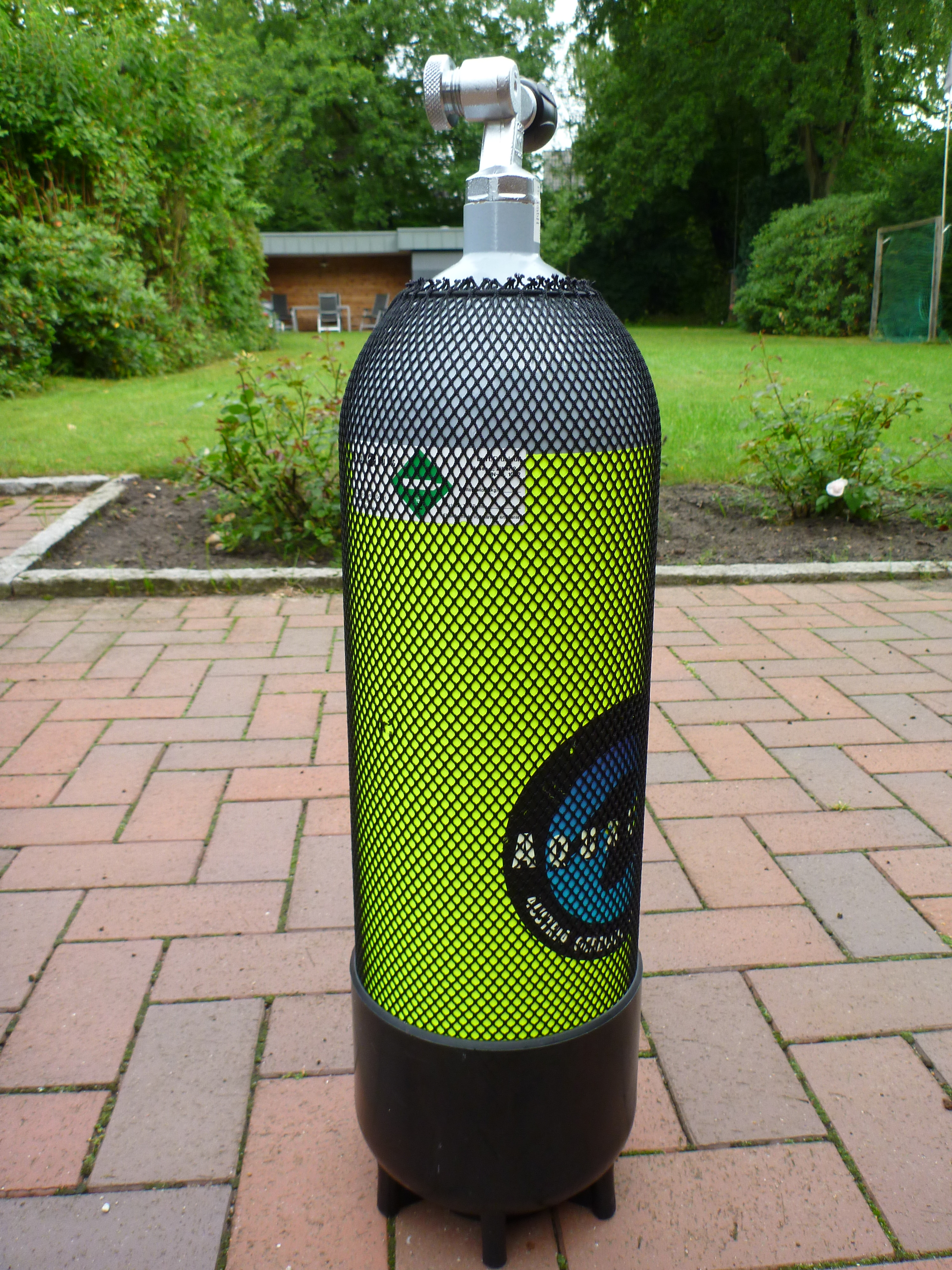 Diving cylinder form Aqualung with food and net